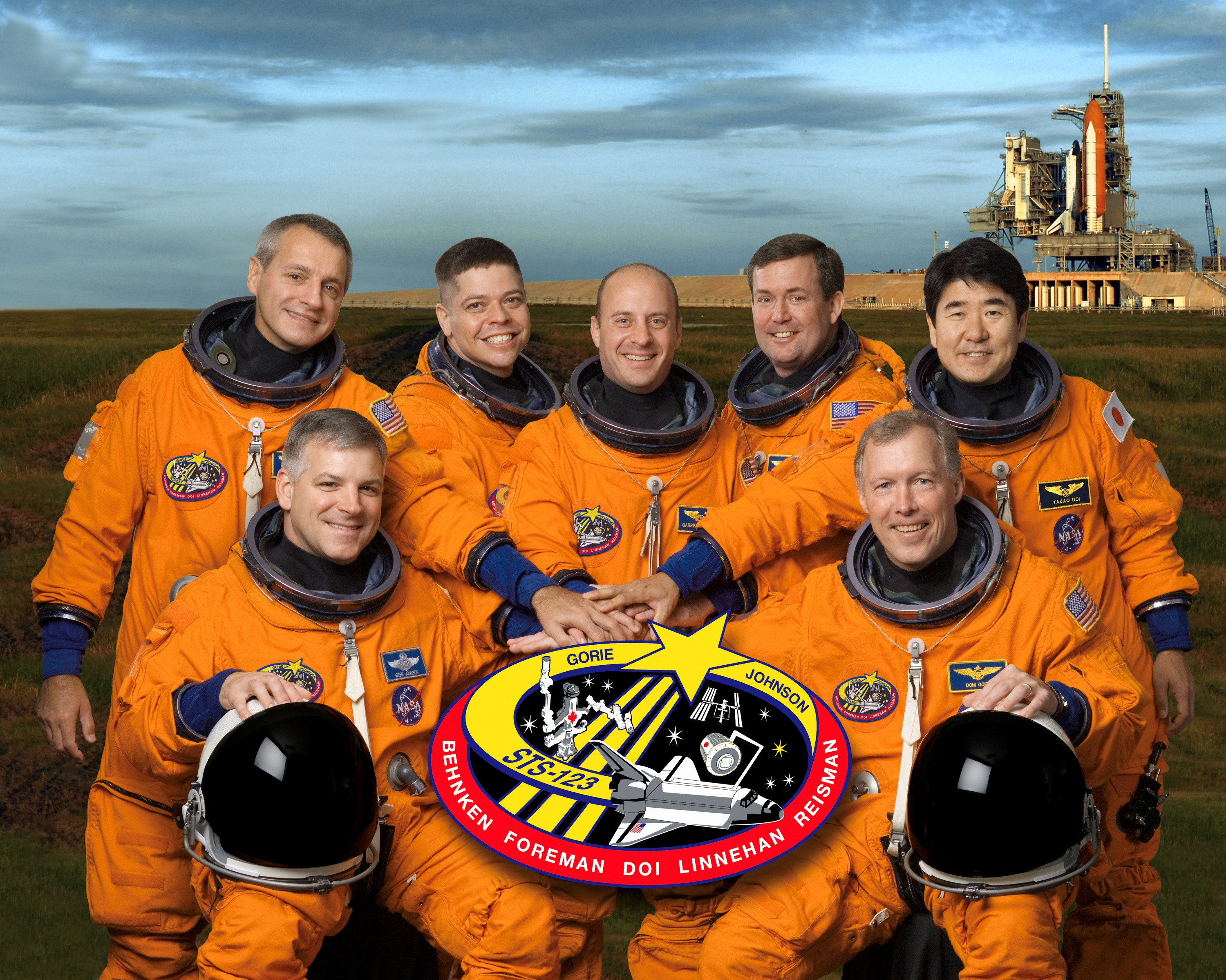 STS-123 crew portrait. From the right (front row) are astronauts Dominic L. Gorie, commander; and Gregory H. Johnson, pilot. From the left (back row) are astronauts Richard M. Linnehan, Robert L. Behnken, Garrett E. Reisman, Michael J. Foreman and Japan Aerospace Exploration Agency's (JAXA) Takao Doi, all mission specialists.